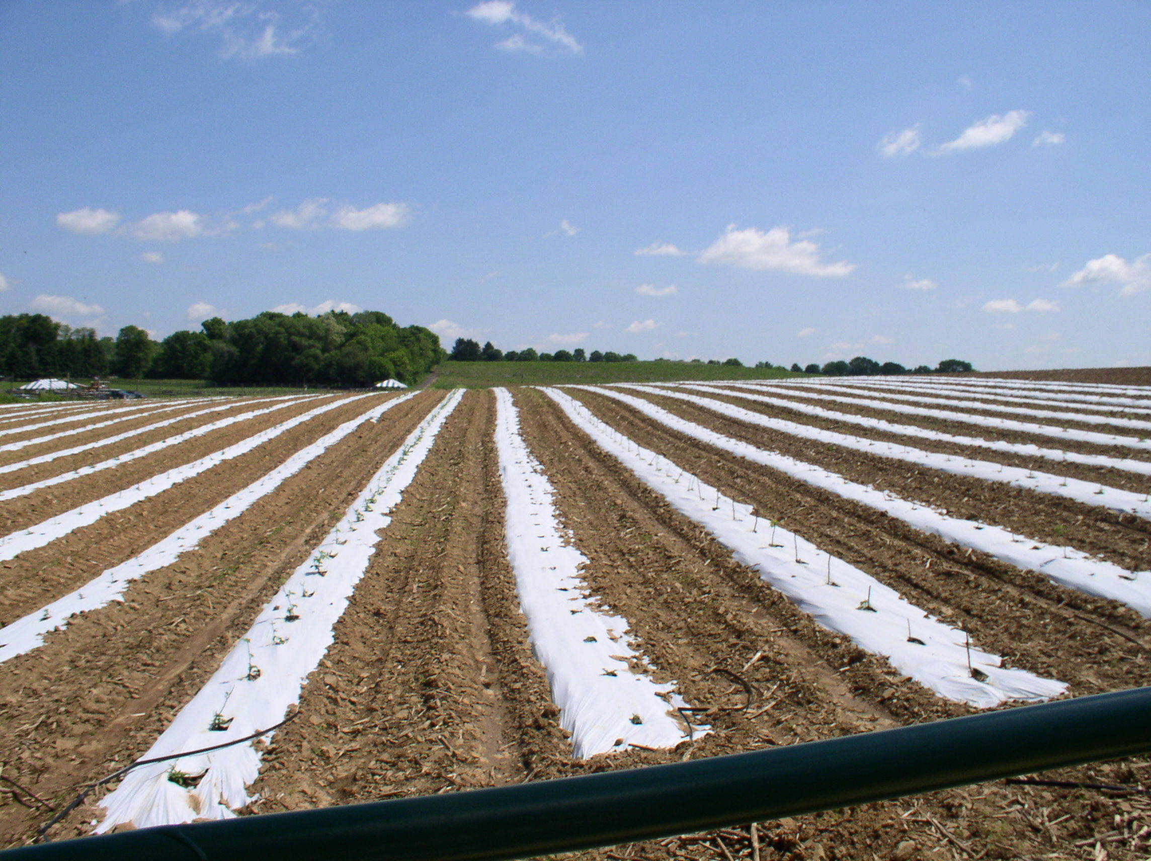 Vegetables grown on plastic mulch.